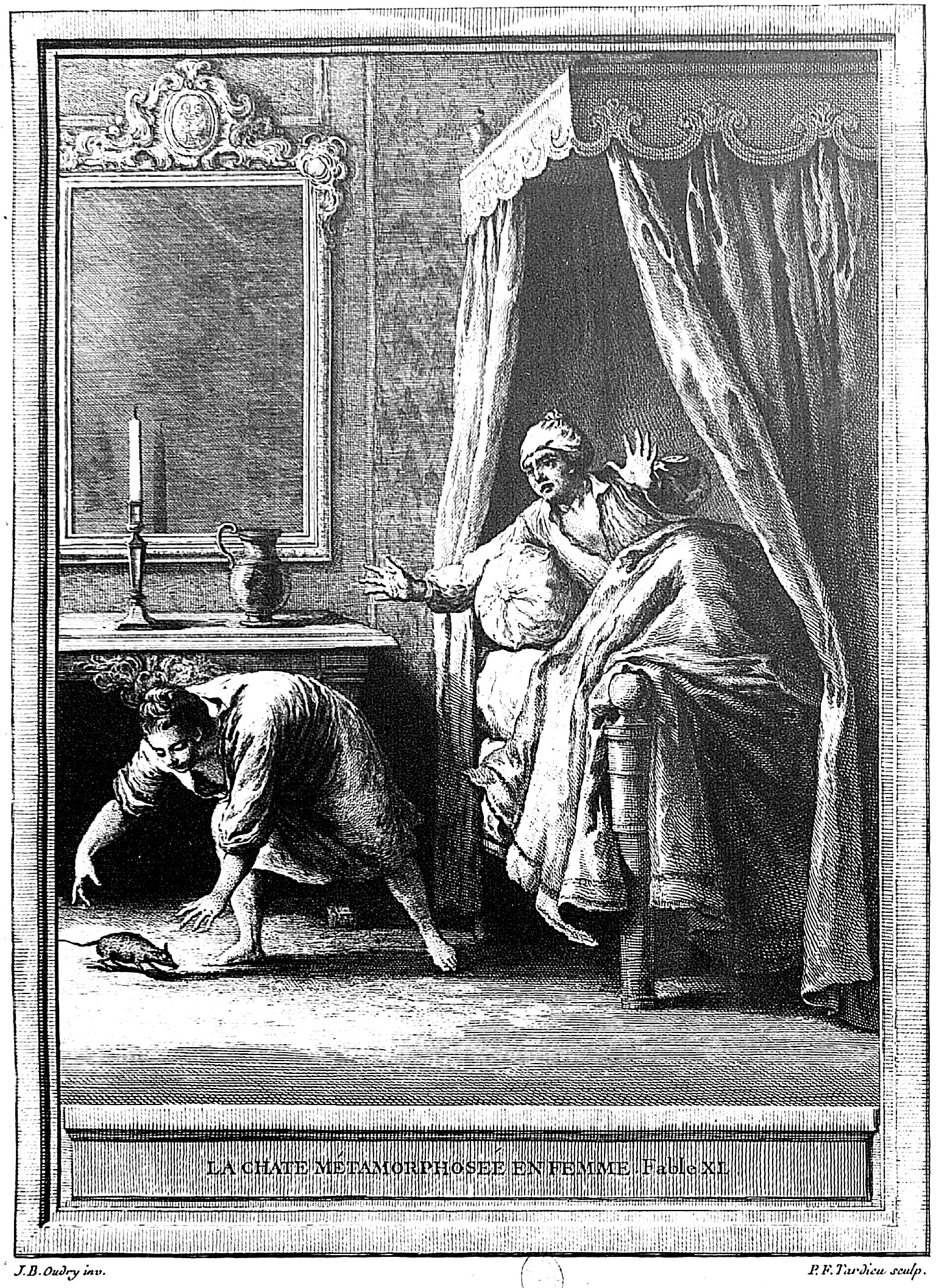 Illustration from La chatte métamorphosée en femme in La Fontaine, Fables choisies, grav d’Oudry, Paris, Desaint & Saillant, 1755-1759